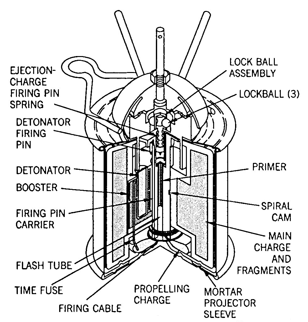 A Valmara 59 bounding anti-personnel mine cutaway - from the ORDATA database.